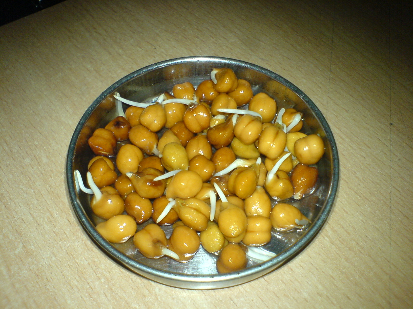 spourts of bengal gram,Tamilnadu state, India